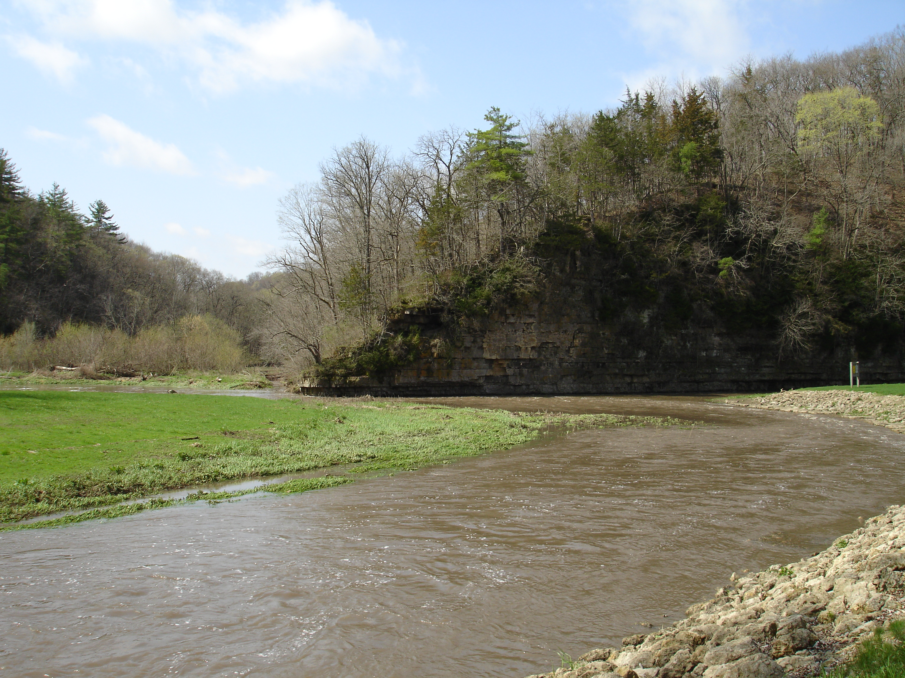 A portion of the Millville Town Site, U.S. National Register of Historic Places (grassy area), South of Apple River, Illinois, USA at Apple River Canyon State Park Also pictured: A large dolomite rock formation carved by the Apple River at the confluence of South Fork Apple River and Apple River.